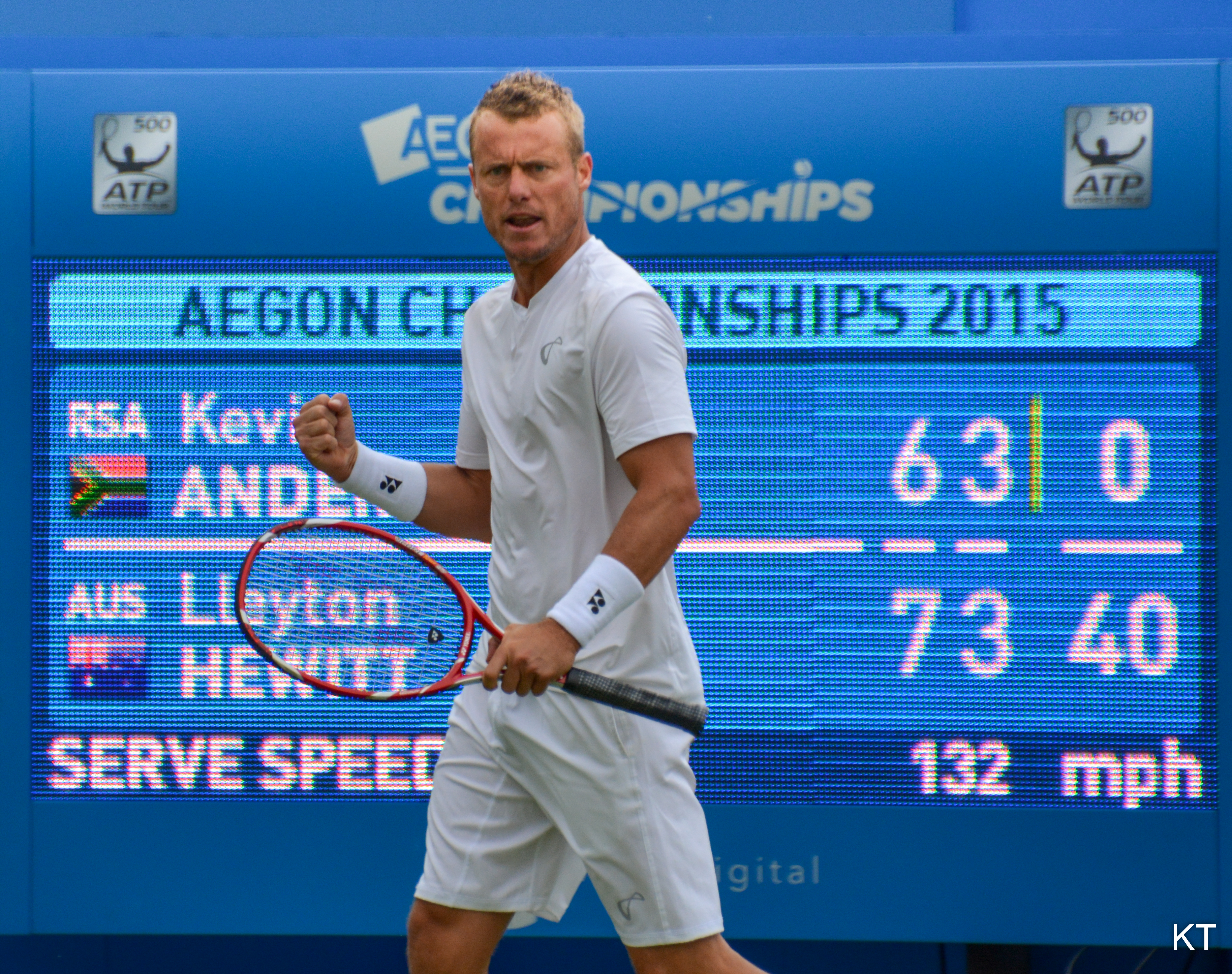 Aegon Championships, Queen's Club, June 2015.